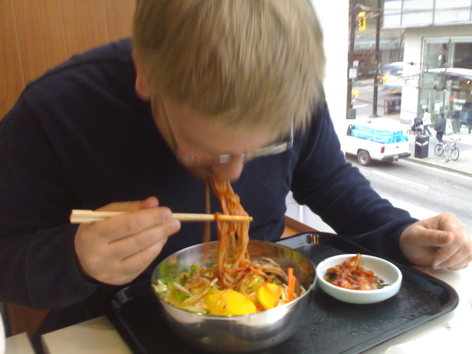 Taken at 2:33 PM on April 03, 2006; cameraphone upload by ShoZuCold, spicy noodles - Korean Food at HMart on Seymour and Robson - Roland in Vancouver 1262.jpg